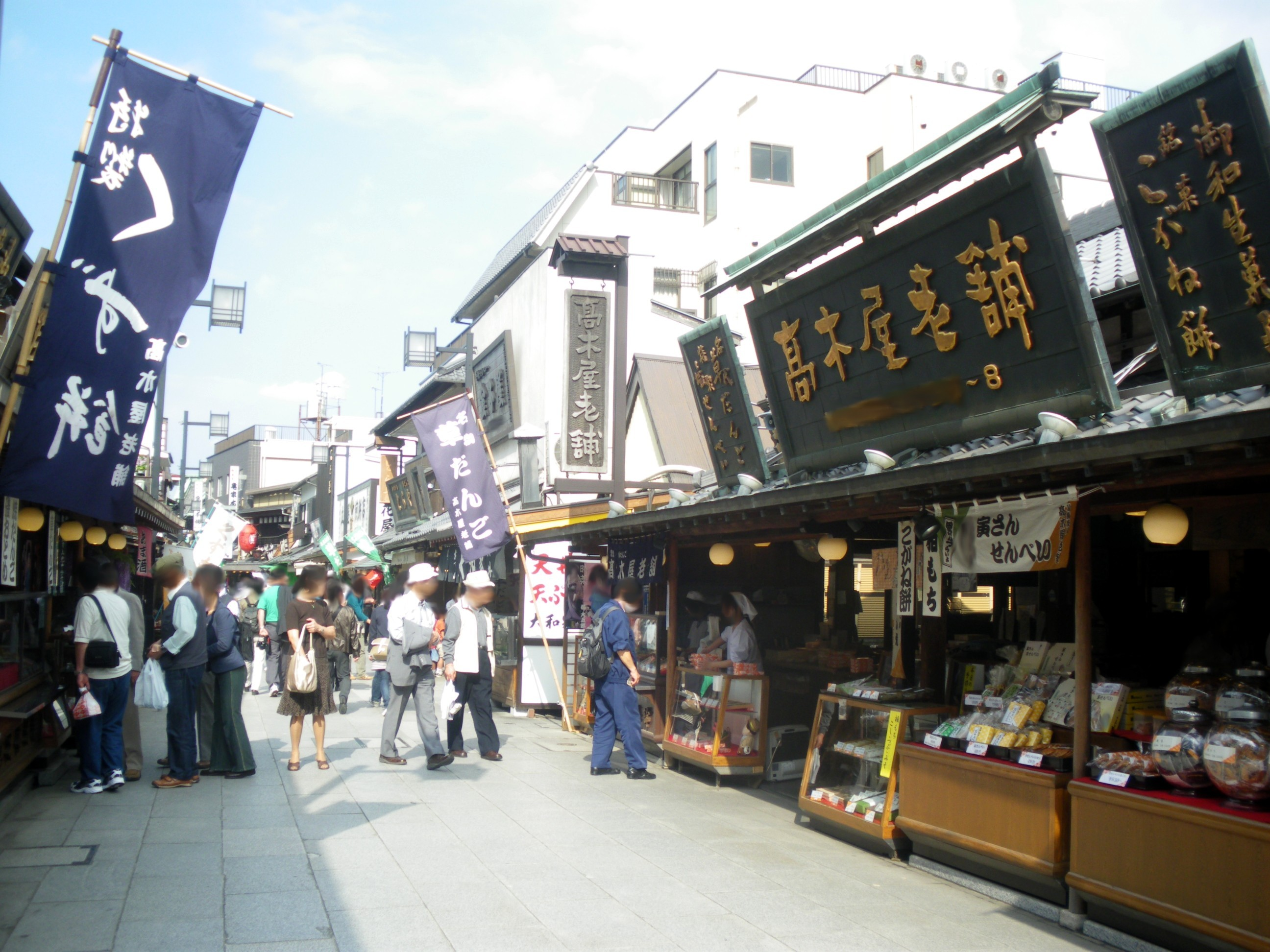 Takagiya Shinise(Shibamata,Katsushika,Tokyo)